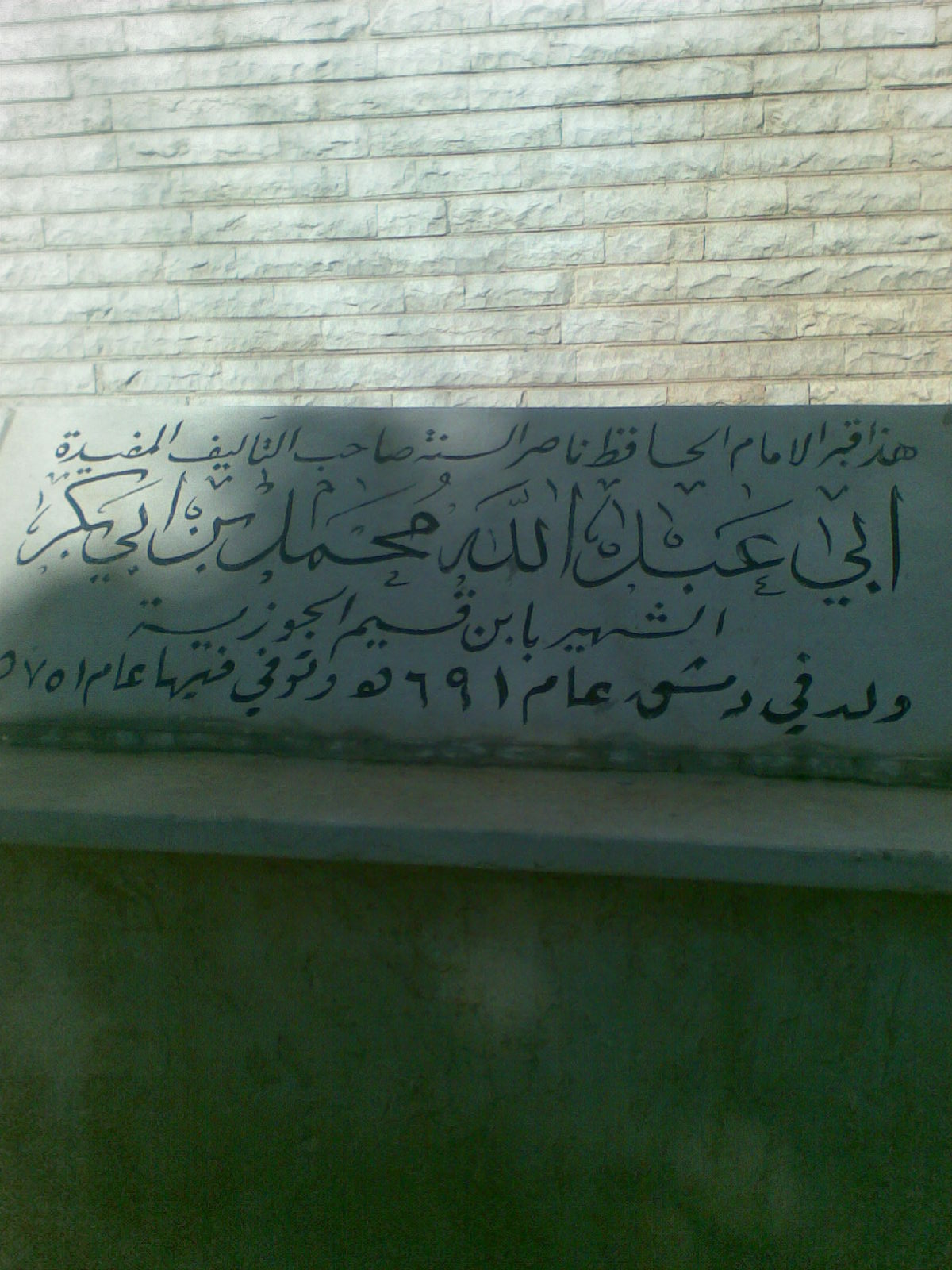 Shrine of Sunni Islamic scholar Ibn Qayyim Al-Jawziyya. Located in Bab Al-Saghir graveyard in the old city of Damascus, Syria.